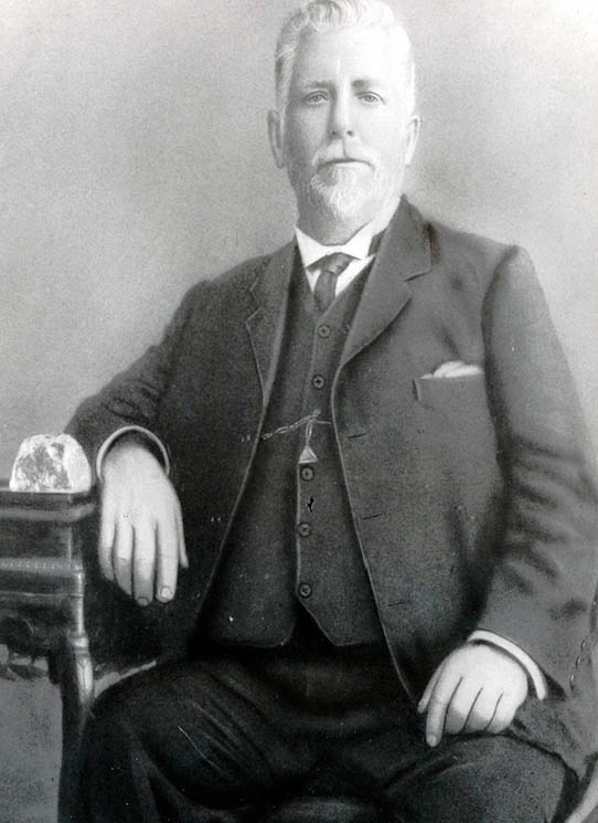 Photograph of Frederick George Stanley Wells with the Cullinan Diamond